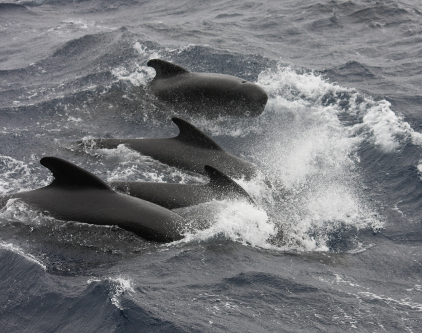 Long finned Pilot Whales in the Goban Spur, offshore Ireland.